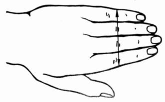 Chinese Cun, variant 3